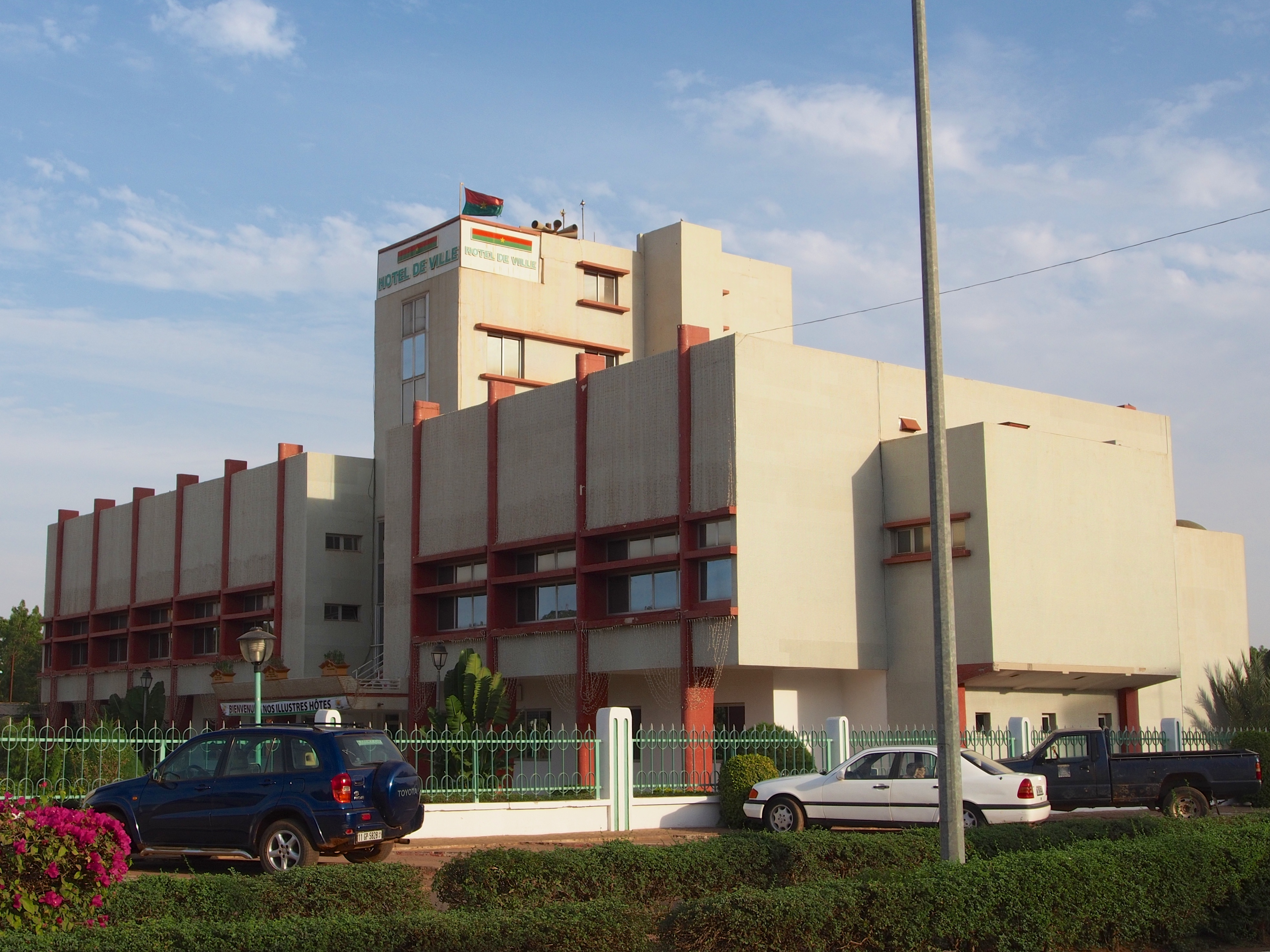 Town House of Ouagadougou, Burkina Faso